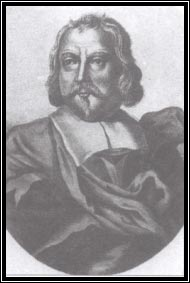 Nicolas Cotoner (1608-1680)